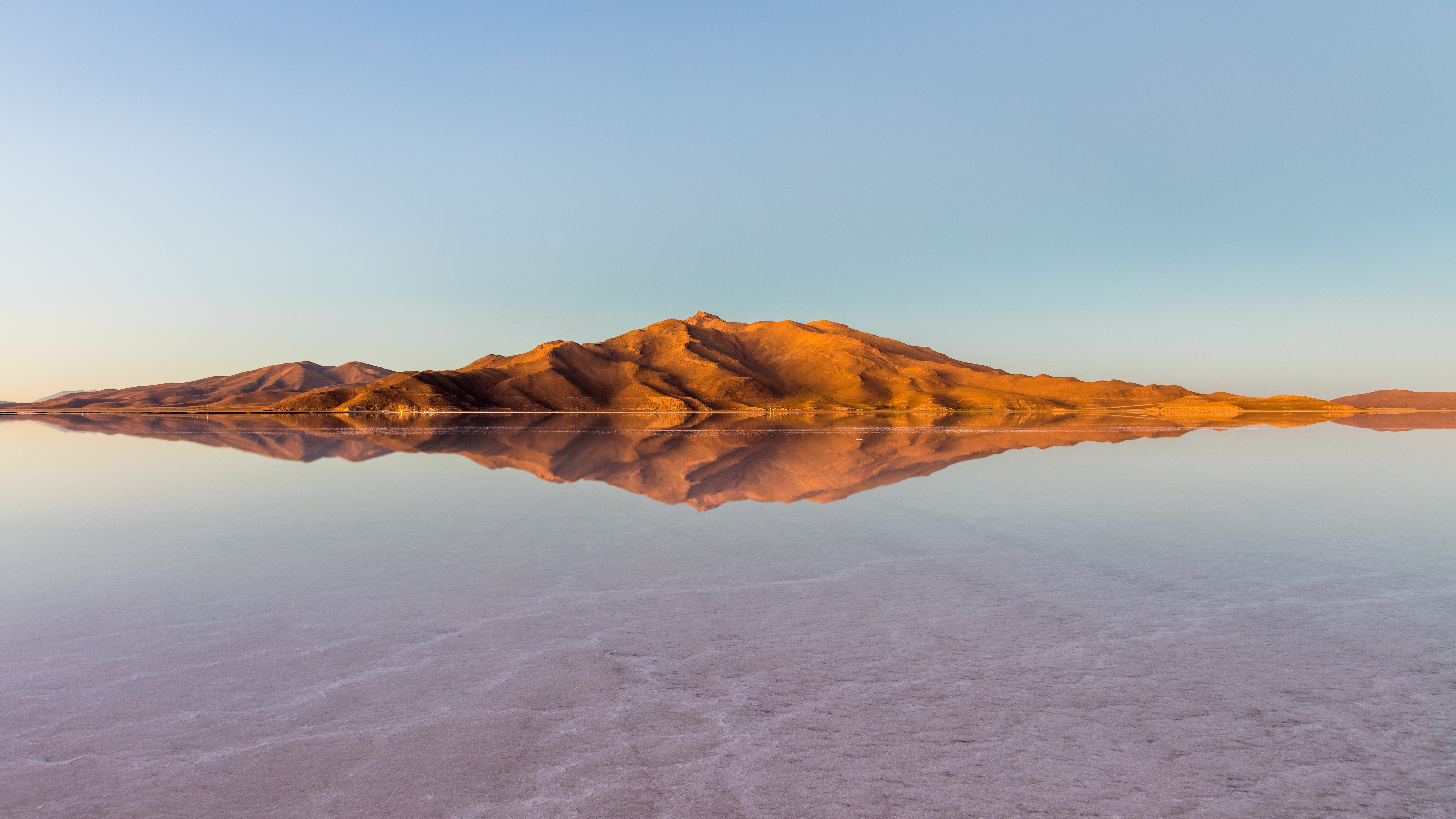 Mountains and reflections surrounding the Uyuni salt flat during sunrise, Daniel Campos Province, Potosí Department, southwestern Bolivia, not far from the crest of the Andes. This salt flat is, with a surface of 10,582 square kilometers (4,086 sq mi), the world's largest, and during the rain saison (December-February) offers spectacular reflexions.